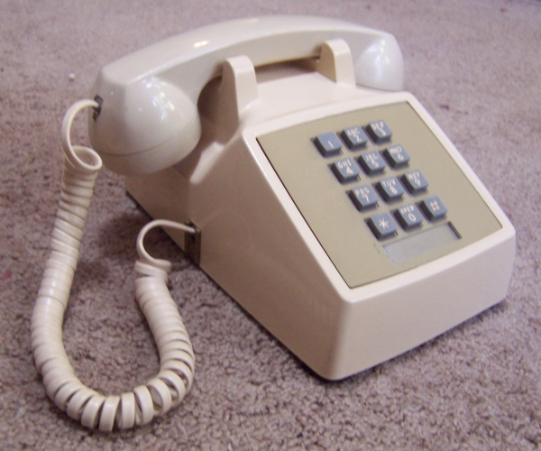 This is a Western Electric Model 2500 telephone, manufactured in March 1980. This particular phone is of the 2500MM variant, and was used by AT&T. NOTE: the date and time in the metadata for this file is not the real date & time that the image was taken. This is because I didn't set the clock on the camera. The real date taken is below in the Date field. Everything else in the metadata is correct.